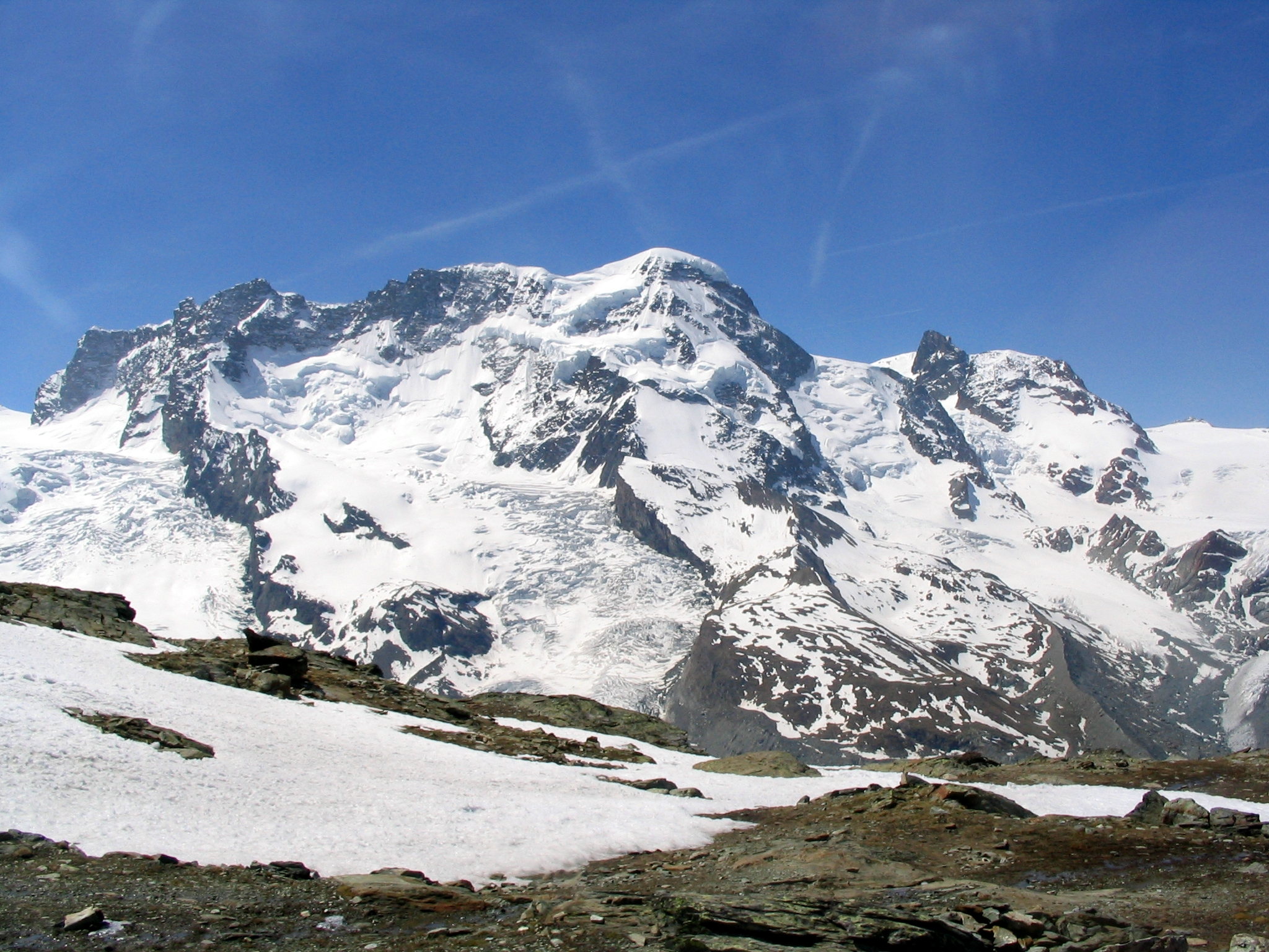 Breithorn (4.164 m, Walliser Alps, North side), view from Rotenboden